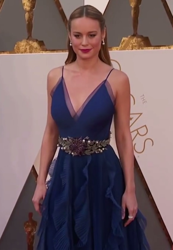 Brie Larson at 2016 Oscars Red Carpet